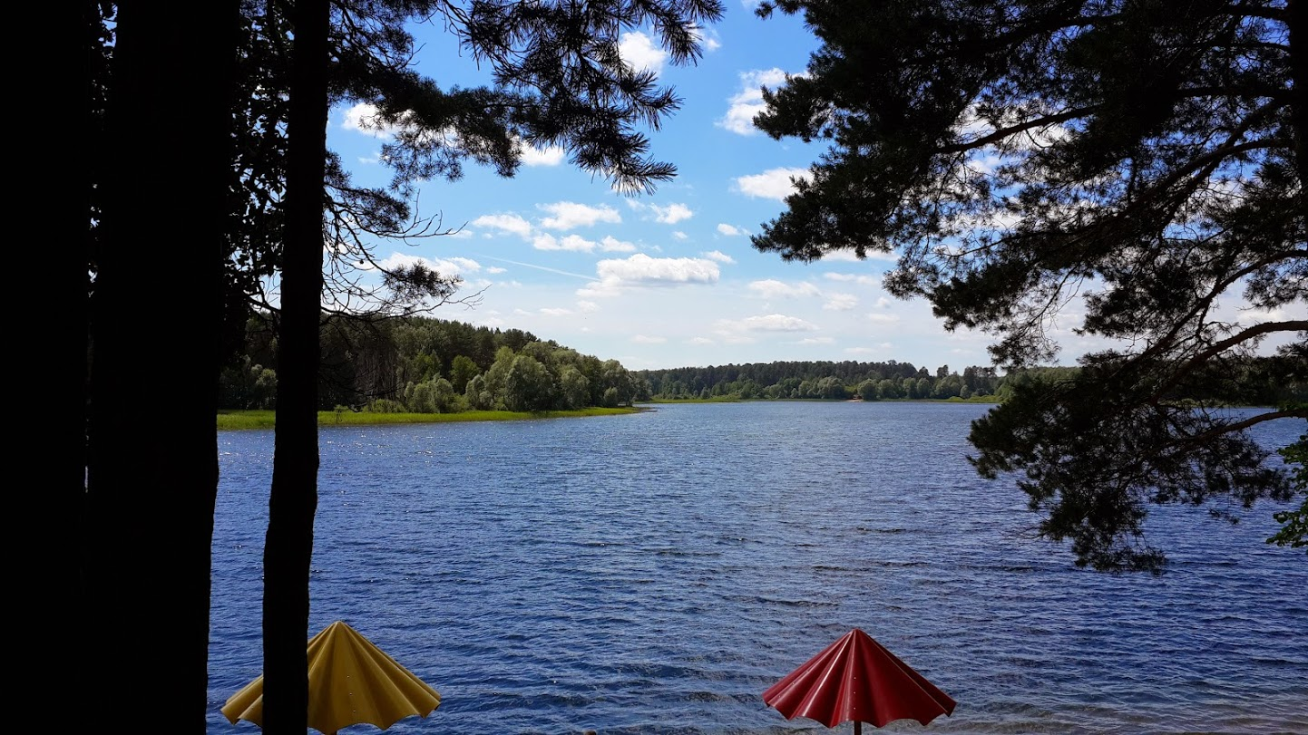 Bigger Yalchik, Health complex (Оздоровительный комплекс ОАО МЦБК), June 30 2014